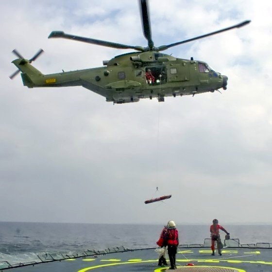 Danish Air Force AW-101, hoisting from a ship during an presentation.